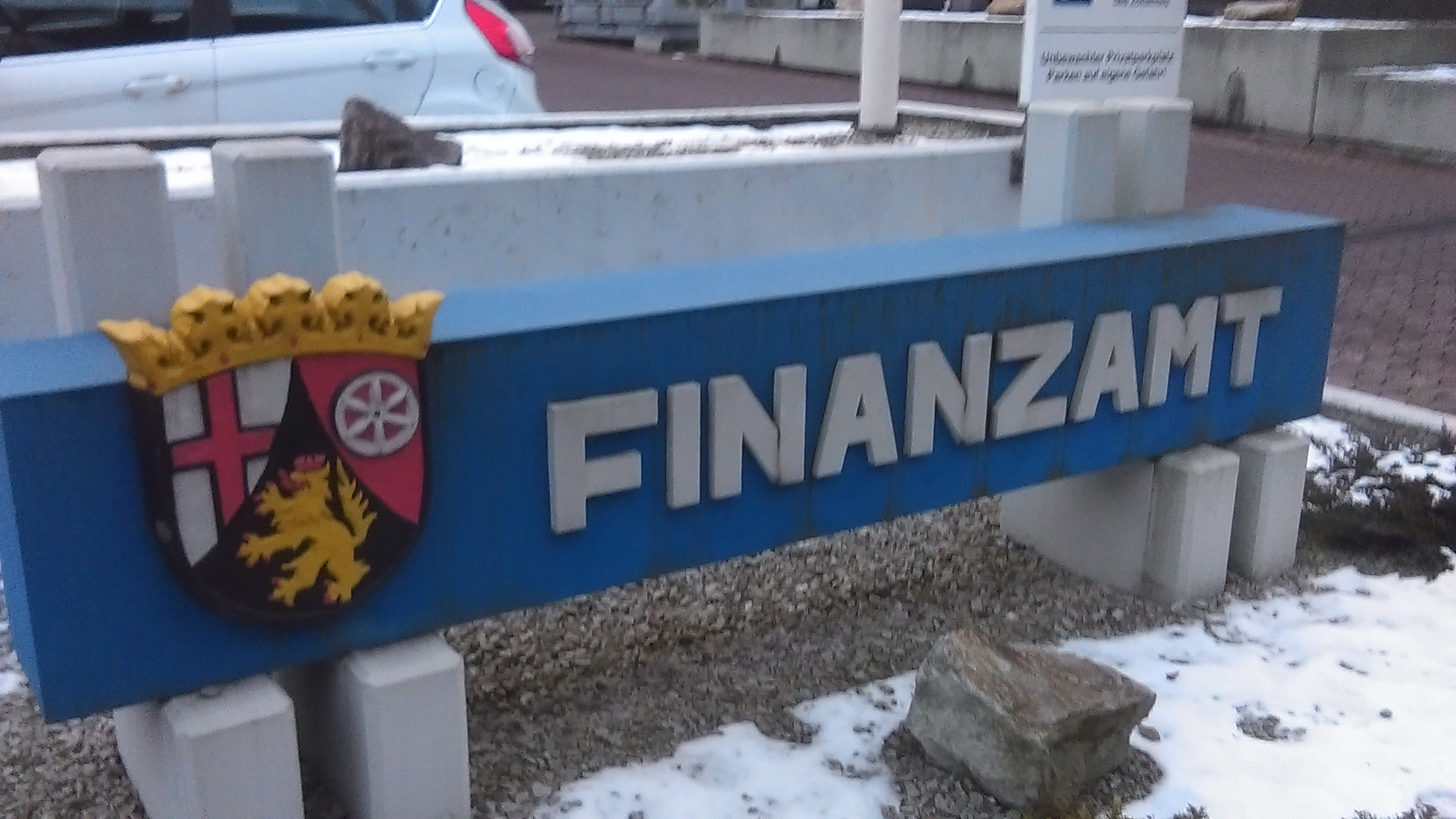 sign finance office Idar-Oberstein, Schild Finanzamt Idar-Oberstein